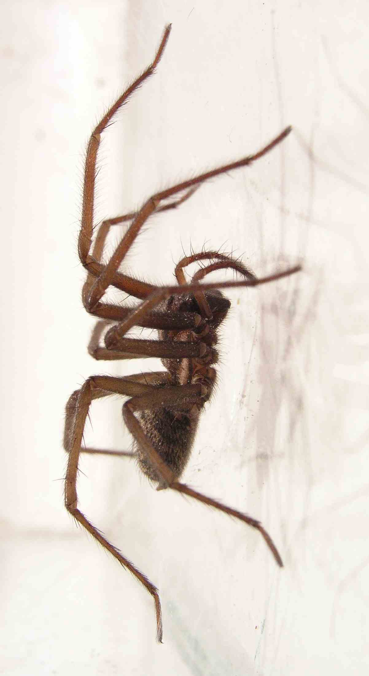 Tegenaria sp. (family agelenidae). body about 15 mm long.